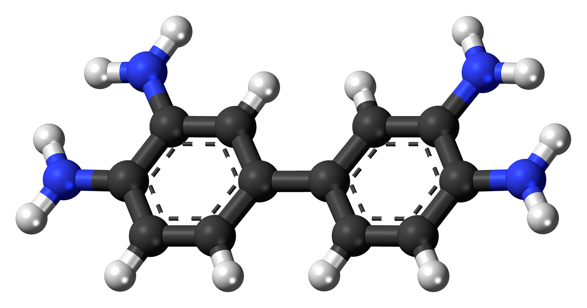 Ball-and-stick model of the 3,3'-diaminobenzidine molecule, a precursor to polybenzimidazole fiber. This image shows the planar conformation. Loosely based on the crystal structure of pure 4,4'-biphenol. Color code: Carbon, C: black Hydrogen, H: white Nitrogen, N: blue